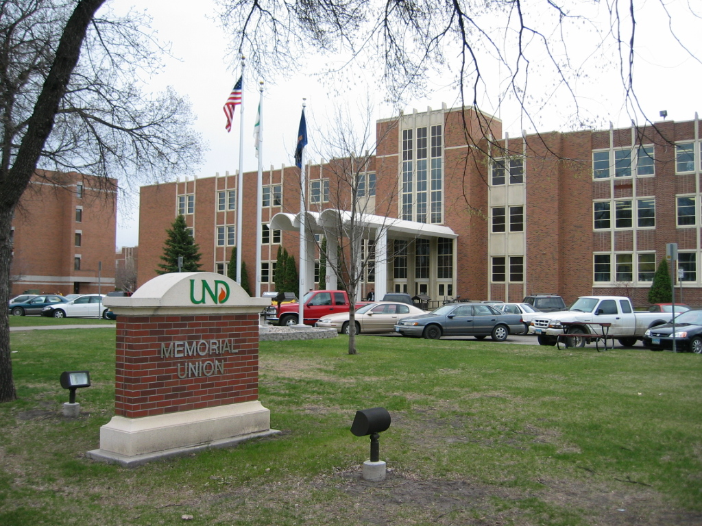 University of North Dakota Memorial Union Building.